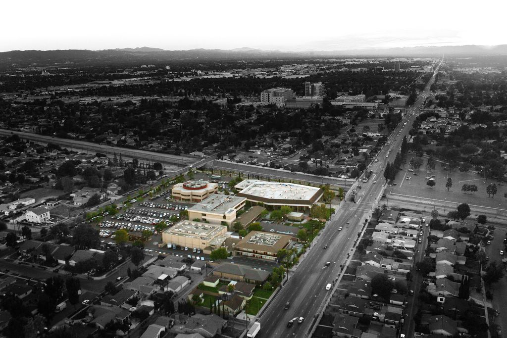 Grace Community Church aerial view. Roscoe Blvd extending to the West.